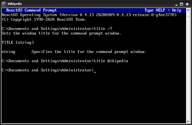 title command on ReactOS-0.4.13